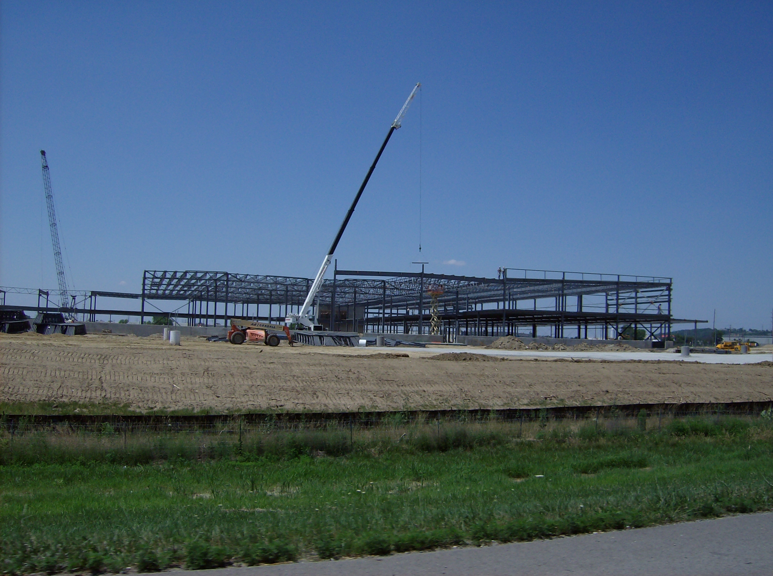 Construction in southeastern West Chester Township, Butler County, Ohio, Butler County, Ohio, Ohio, United States. View westward from Interstate 75.